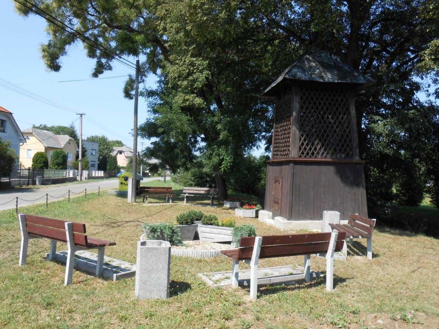 Belfry and rest-zone in Ďurďošík